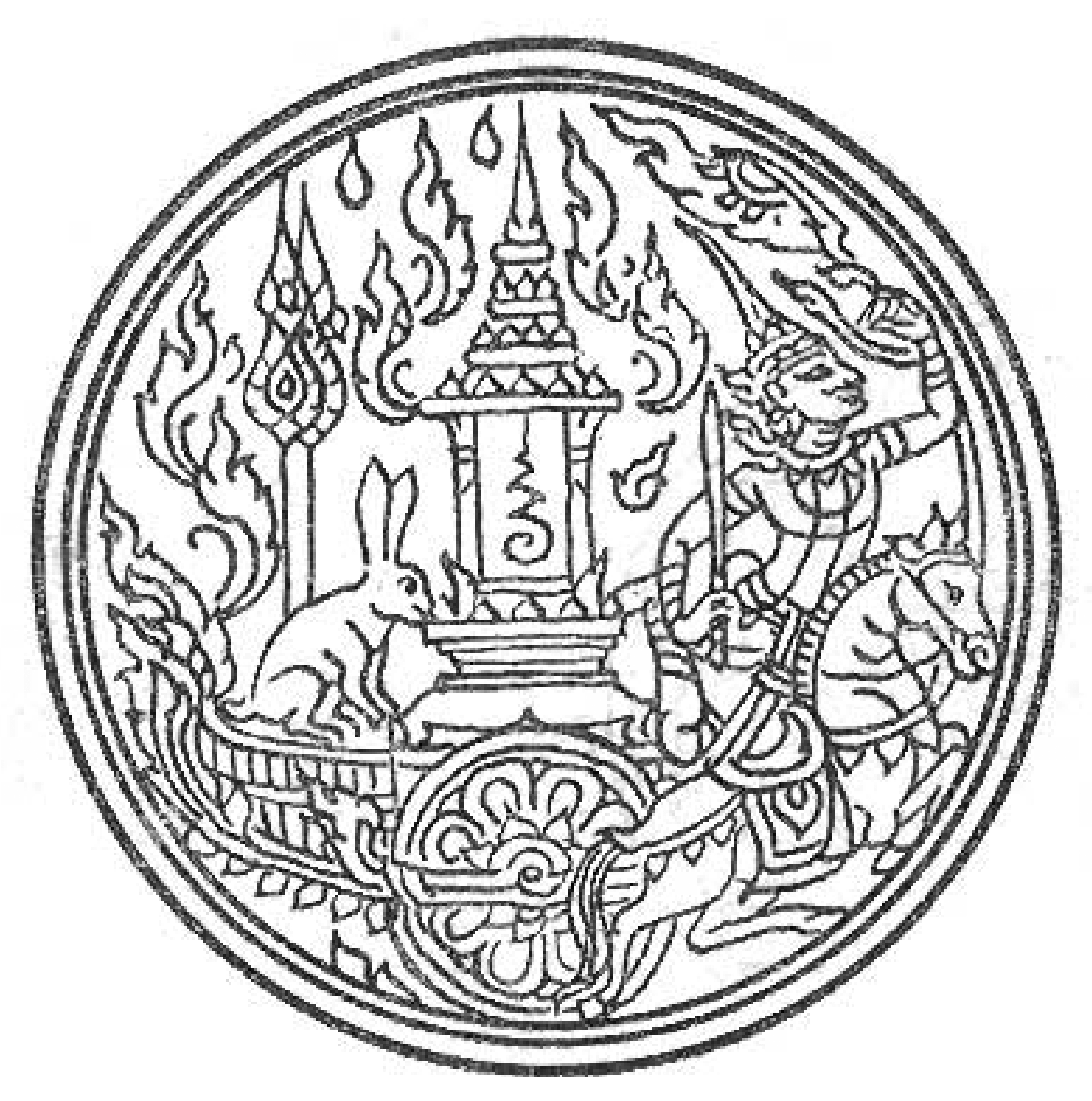 The Great Seal of the Lunar Sphere, see detailed information in The Royal Emblems and the Positional Seals by Phraya Anumanratchathon (Yong Sathiankoset).